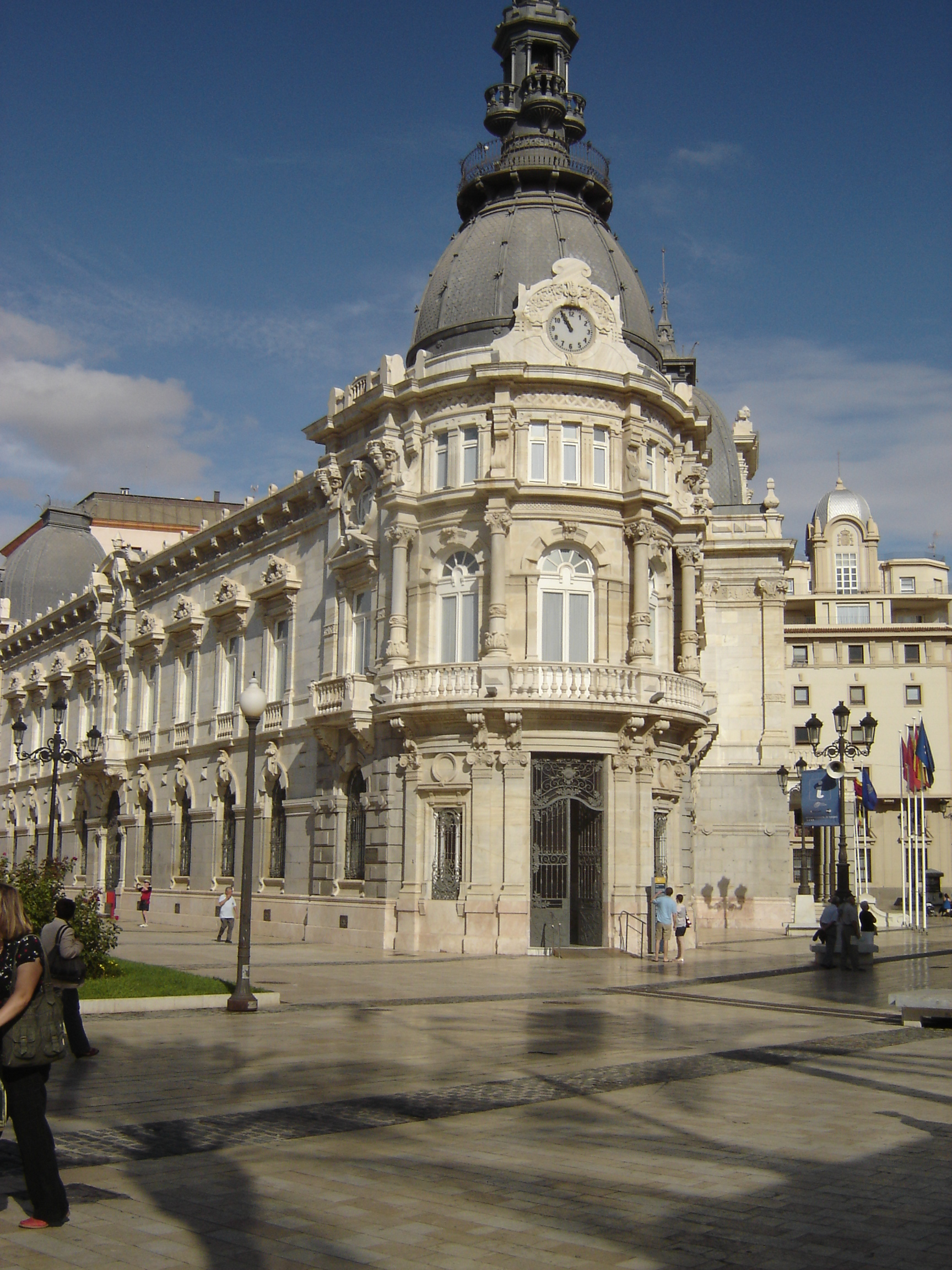 The Palacio consistorial de Cartagena is one of the main modernist buildings in the city of Cartagena ( Murcia ). It was built in the early 20th century and was designed by architect Valarino Thomas Rico.